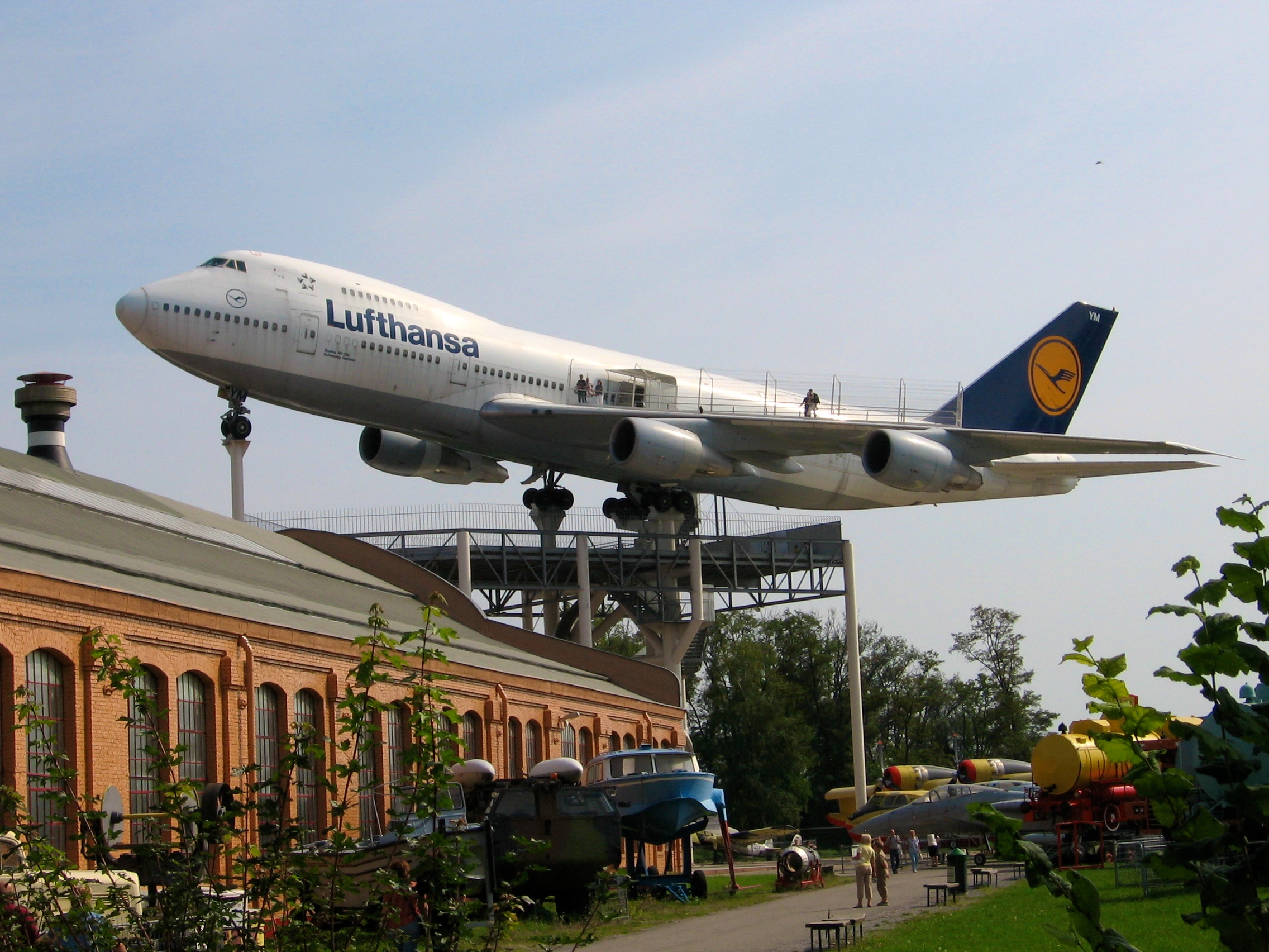 Lufthansa 747 on museum display